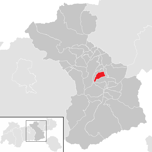 District Schwaz